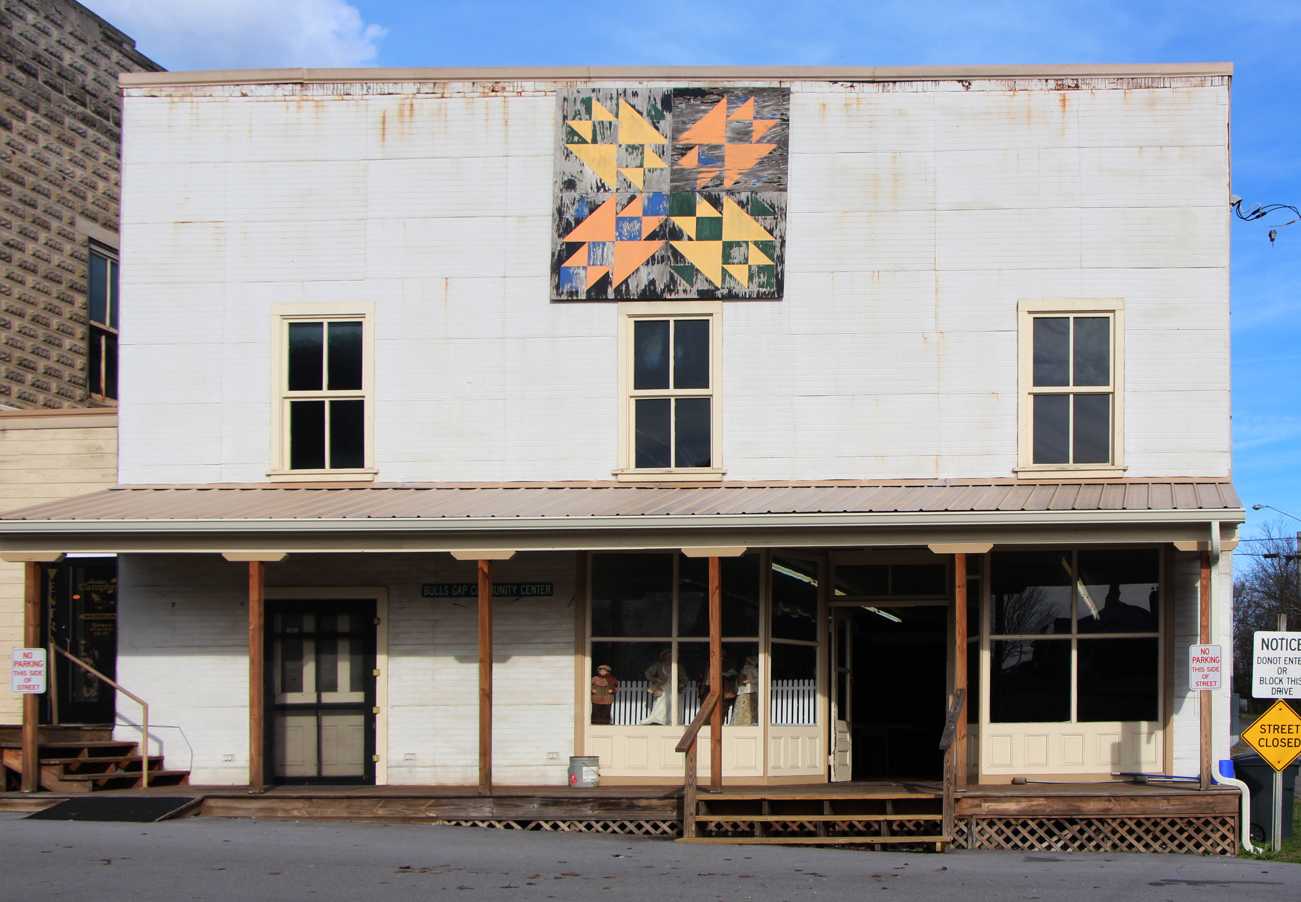 York Quillen Store, 141 South Main Street, Bulls Gap, TN